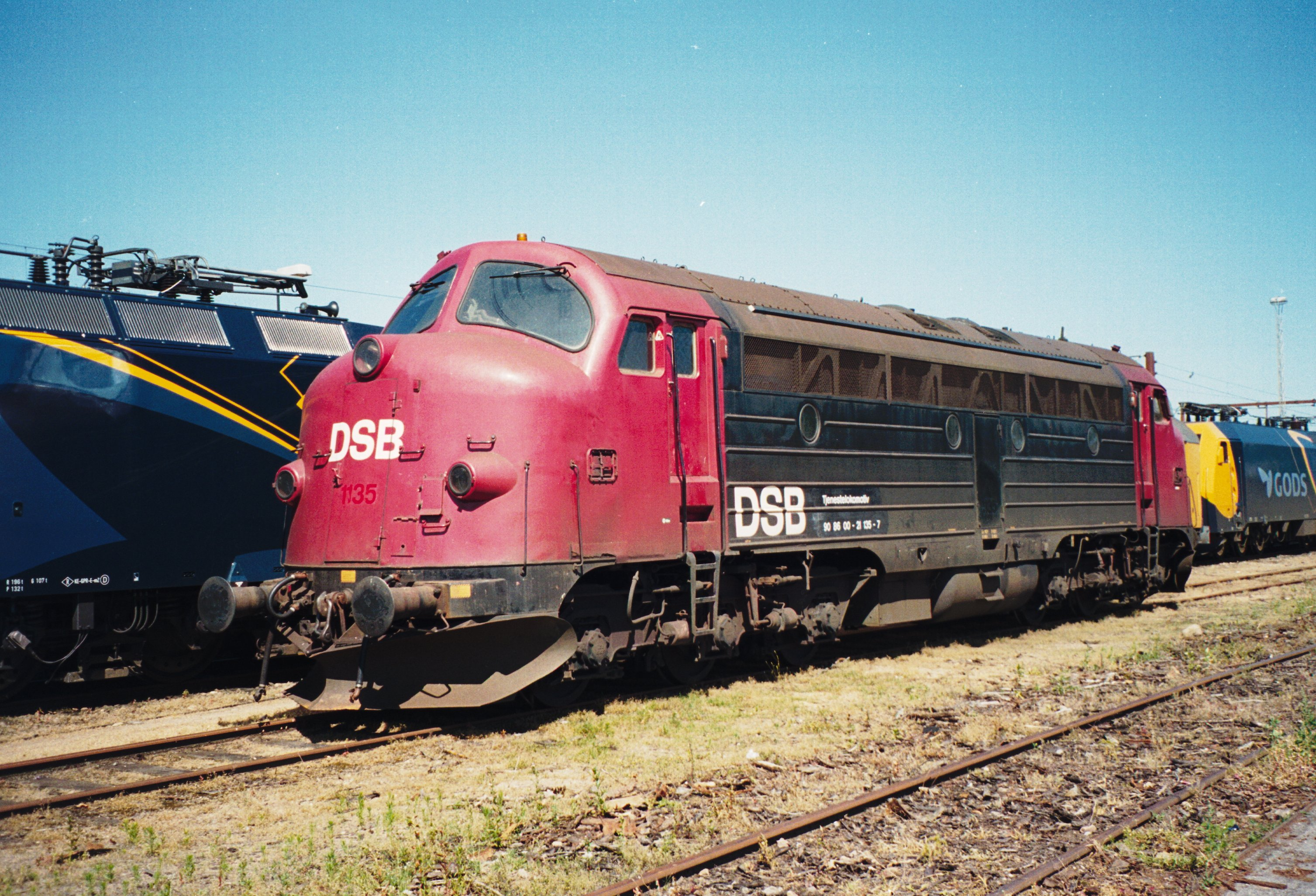 DSB's service locomotive ("tjenestelokomotiv") 90 86 00-21 135-7 (formerly class MY #1135) in Vojens, Denmark.